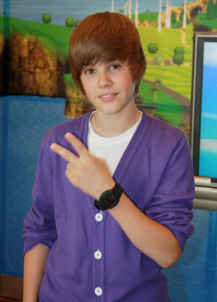 NYC signing September 1,2009 Nintendo Store - NYC